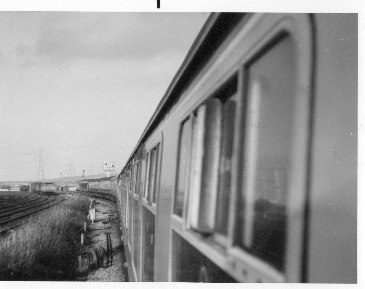 Beighton Junction (ie the original 1849 junction) on the Derbyshire/Yorkshire border, England, 27 November 1977. Train travelling northwards and turning to the west. Photographer on the ex-Midland Railway "Old Road", locomotive on the ex-MSLR Beighton Branch. Trains between Chesterfield and Sheffield were diverted because of engineering work.Sidings to the left were between the Old Road and the ex-GCR main line to London Marylebone, out of sight to the left.